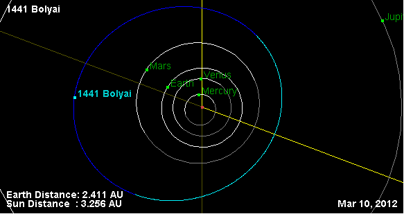 frontal view of 1441 Bolyai orbit on 10 Mar 2012